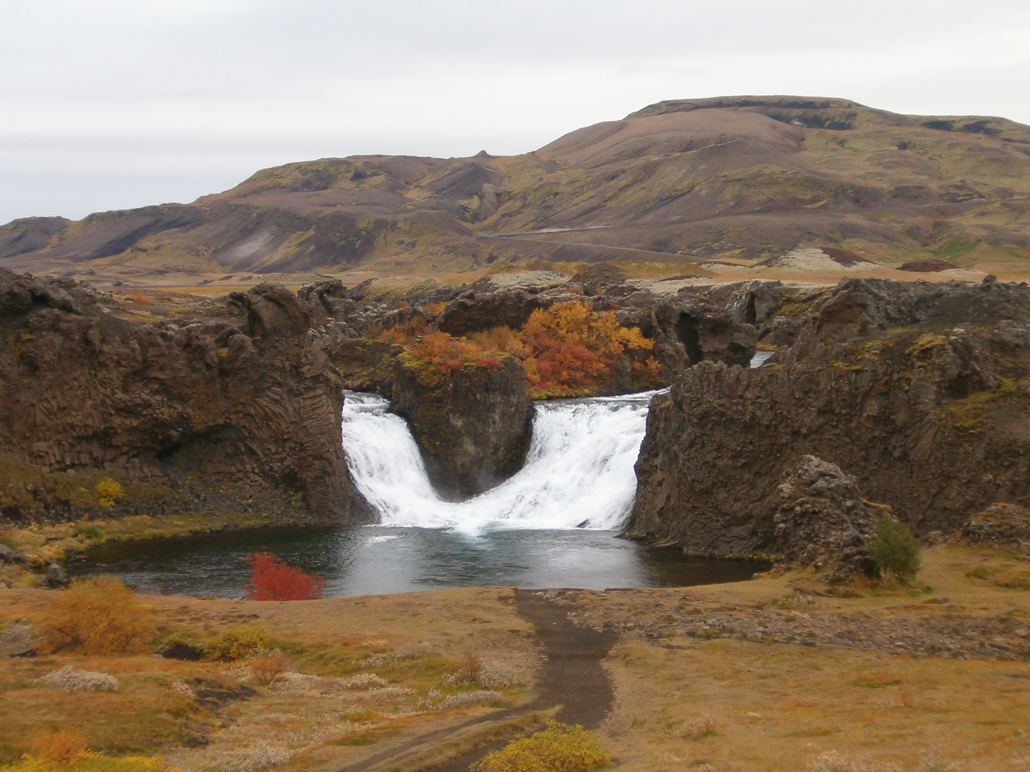 Hjálparfoss waterfall in Iceland